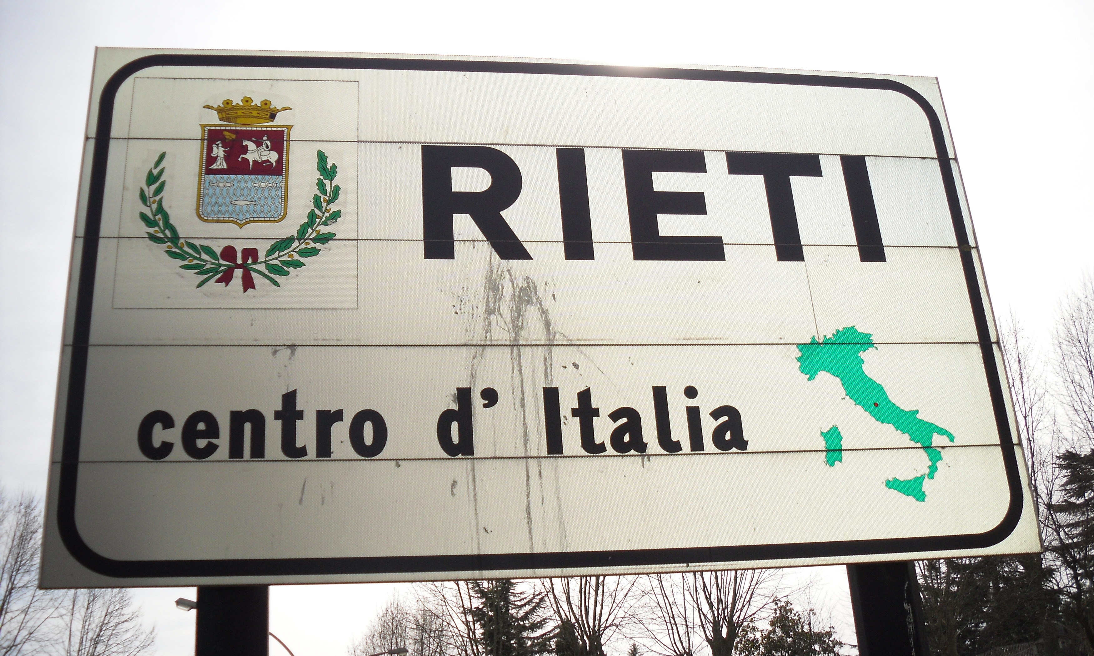 Rieti's welcome sign with the writing "center of Italy"